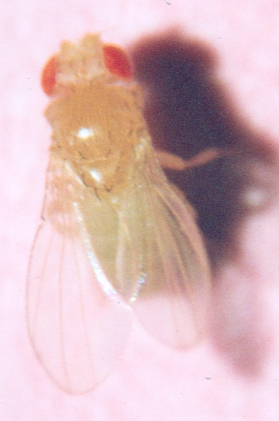 A yellow crossveinless forked fruit fly.